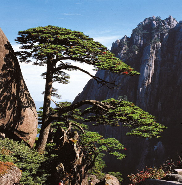 Huangshan pines at Mount Huangshan